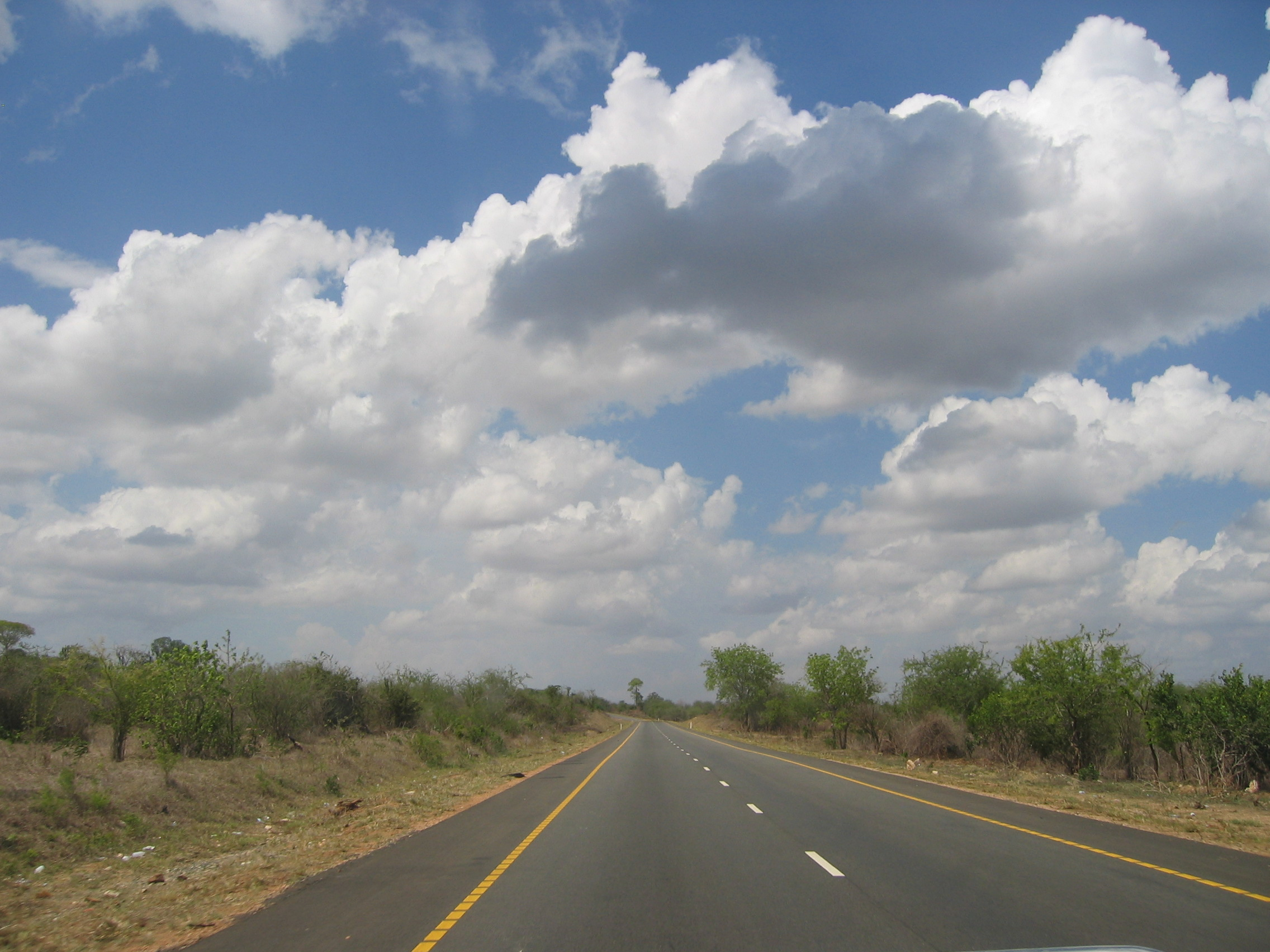 Road from Dar Es Salaam to Tanga